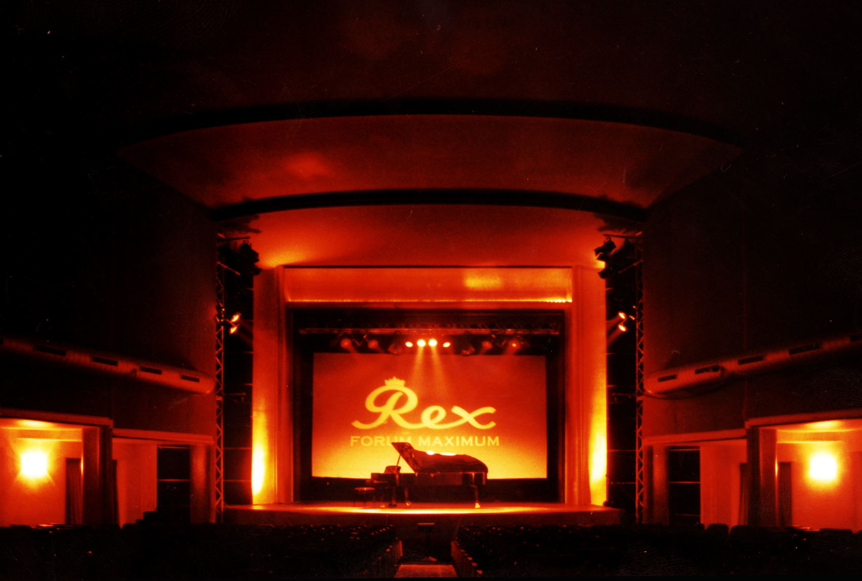 Rex-Theater Wuppertal, Auditorium